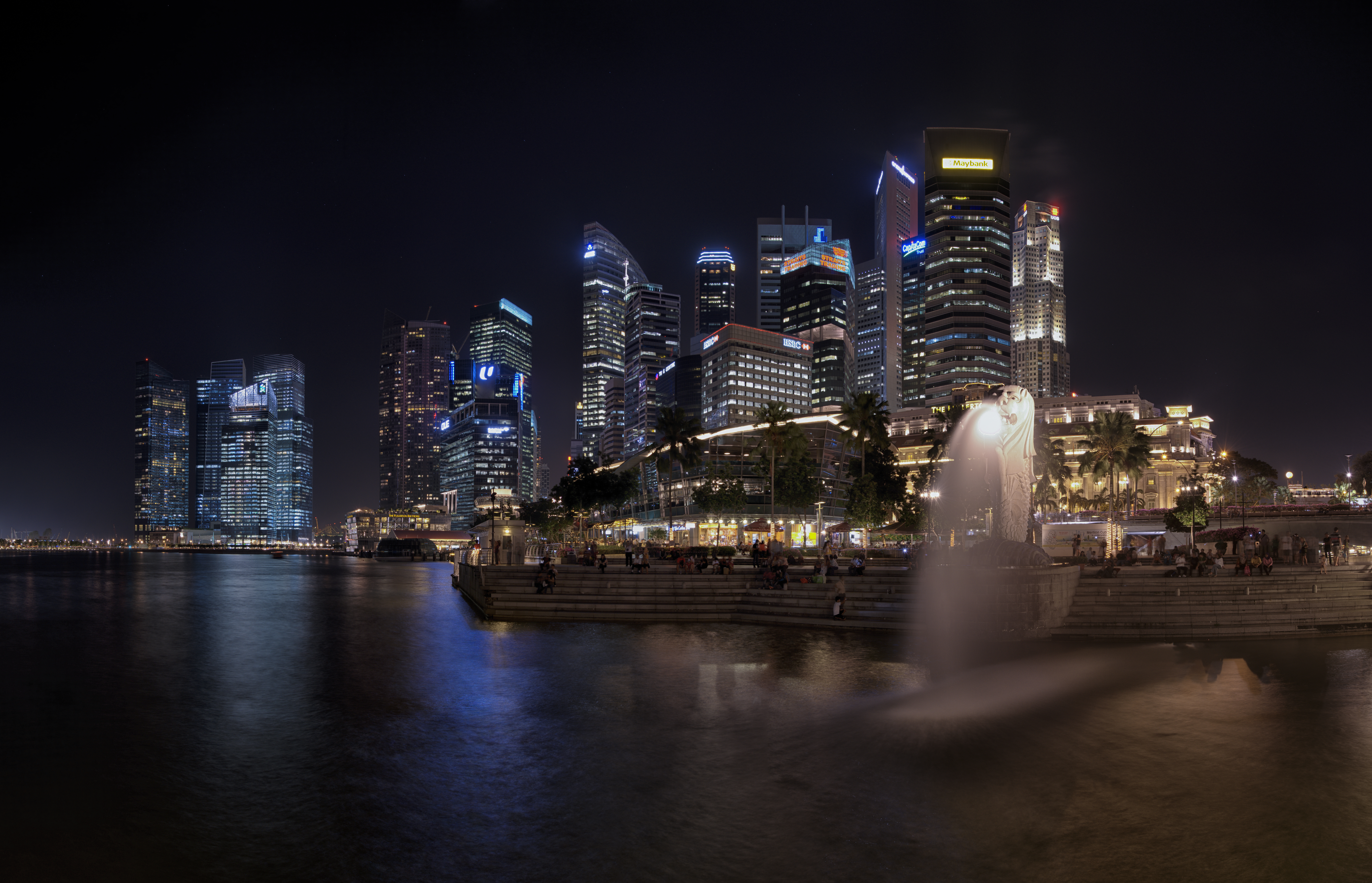 merlion park night Singapore 2012 city skyline panorama